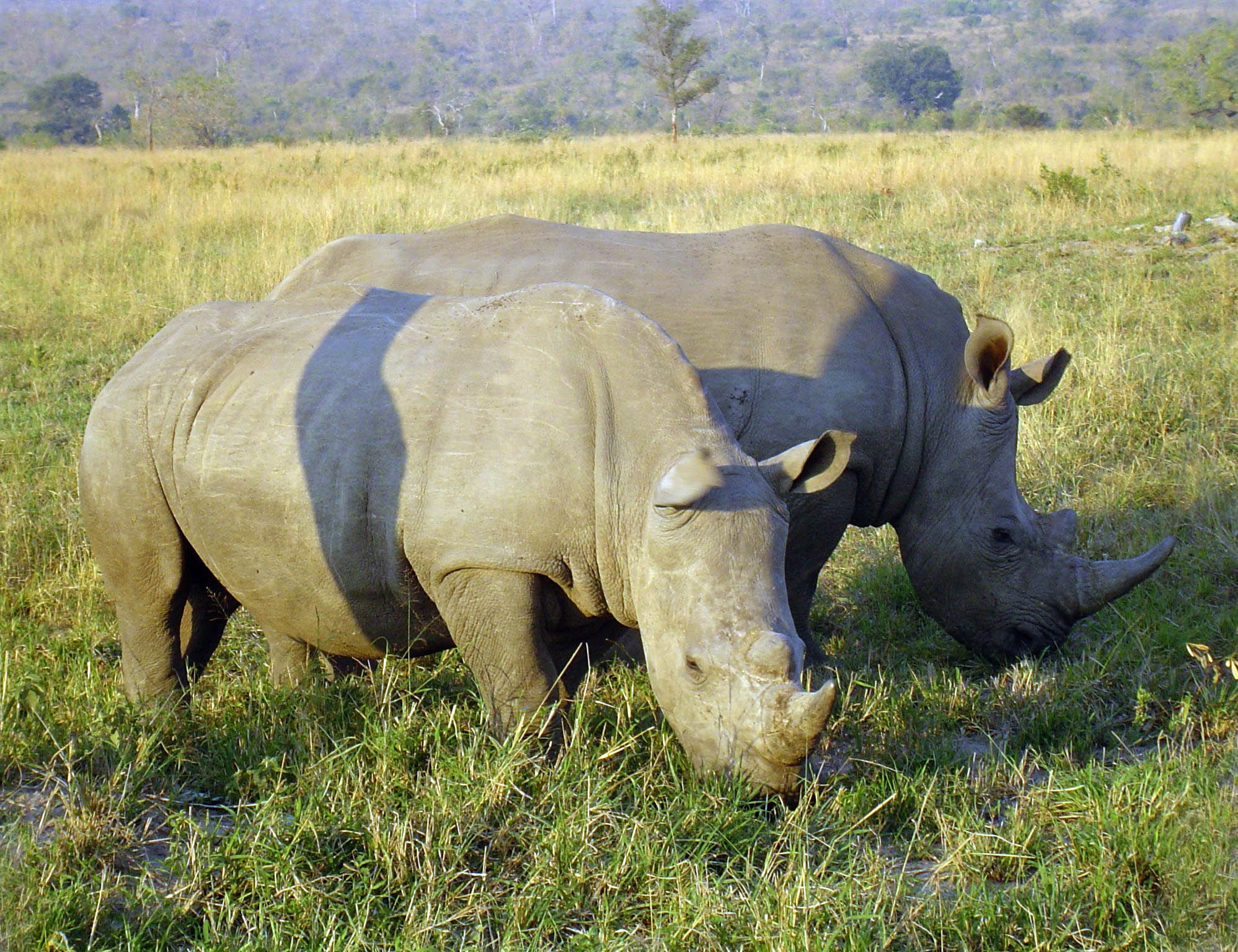 Shadowless version at Image:Rhinoceros_in_South_Africa_adjusted.jpg A photo taken of Rhinoceros eating in a national park in South Africa.